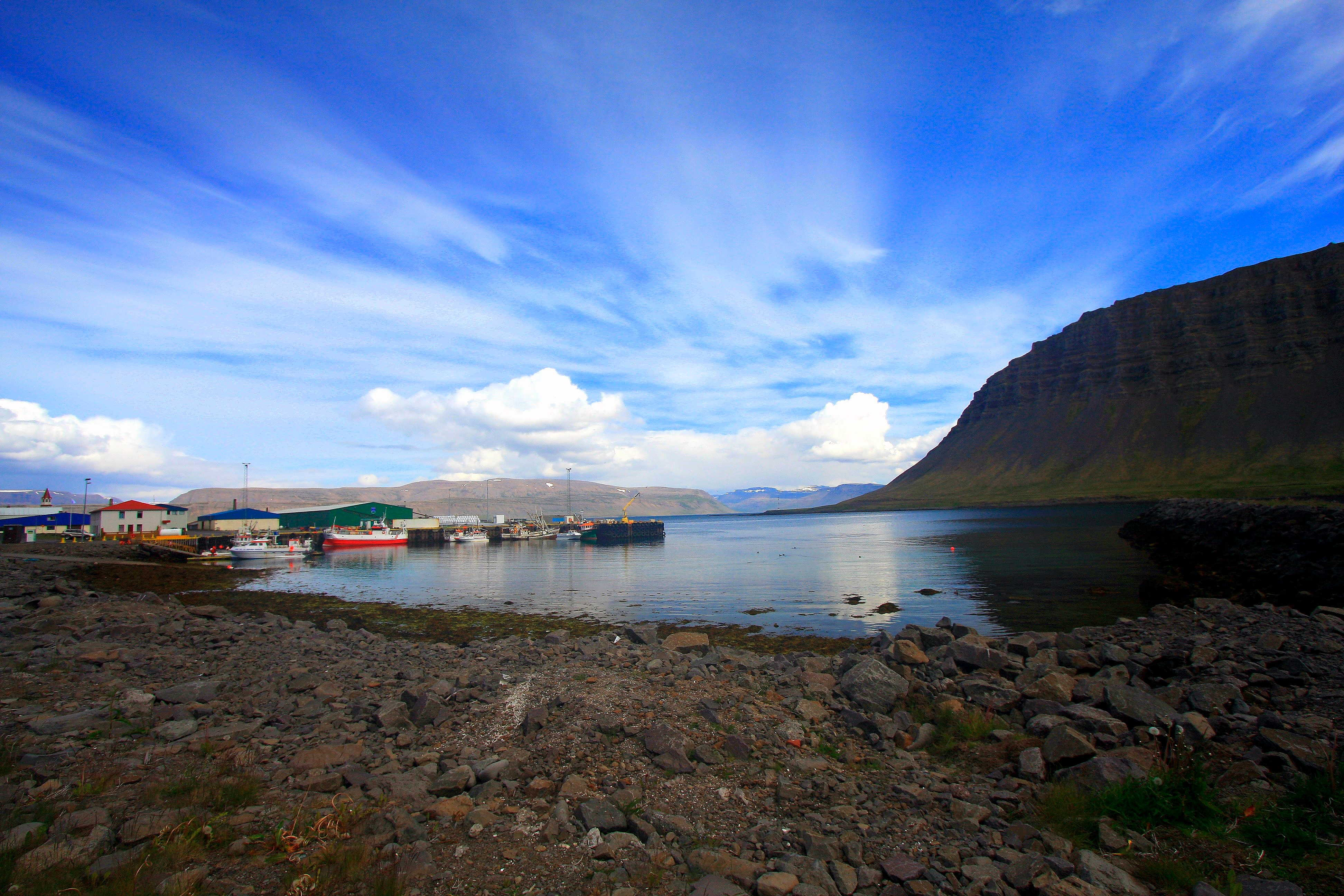 Bíldudalur is a village situated on the coast of Arnarfjörður, one of the Westfjords in Iceland. It is situated in the Vesturbyggð municipality and has 166 inhabitants (as of January 2011). The village prospered in the 19th century thanks to sound business enterprise and the booming fishing industry. Ólafur Thorlacius (1761–1815) set up business in Bíldudalur following the end of the Danish trade monopoly. He was one of the most influential businessmen in Iceland at the beginning of the 19th century. He bought and sold fish, traded goods and ran his own small fishing fleet. One of his successors, Pétur J. Thorsteinnsson (1854–1924) successfully continued this operation. In the late 20th and early 21st centuries, the decline of the fishing industry and the imposition of strict quotas by the Icelandic government have led the town to diversify its economy. The village is now home to a factory, which processes a mineral-rich algae found in abundance in the fjord, in which many of the residents work. The village is also becoming a popular tourist destination, especially for fishing trips and for artists seeking to gain inspiration from the spectacular scenery. Close by the town there is also a fjord of literary significance, Geirþjófsfjörður, where the Icelandic Gísla saga was played out.